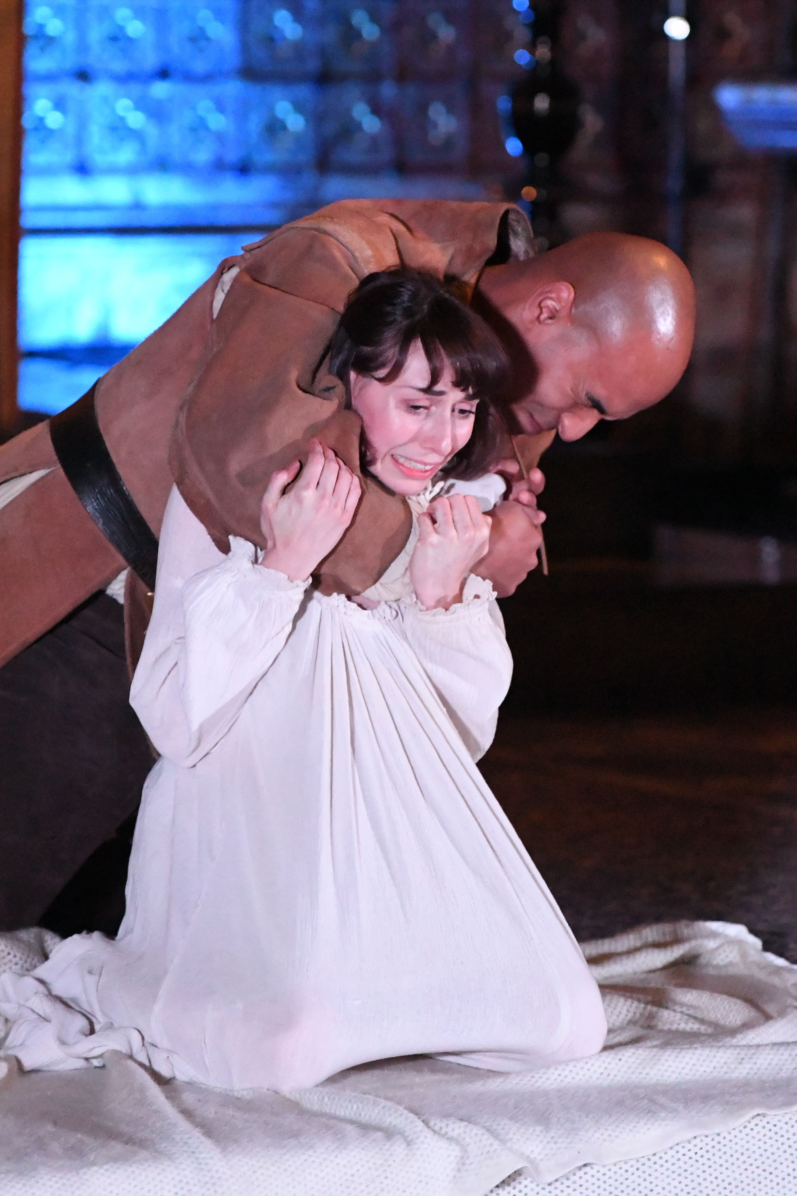 Wesley Charles and Genevieve Lowe as Othello and Desdemona in the 2017 production of the play from the Worcester Repertory Company. Directed by Ben Humphrey in Worcester Cathedral.